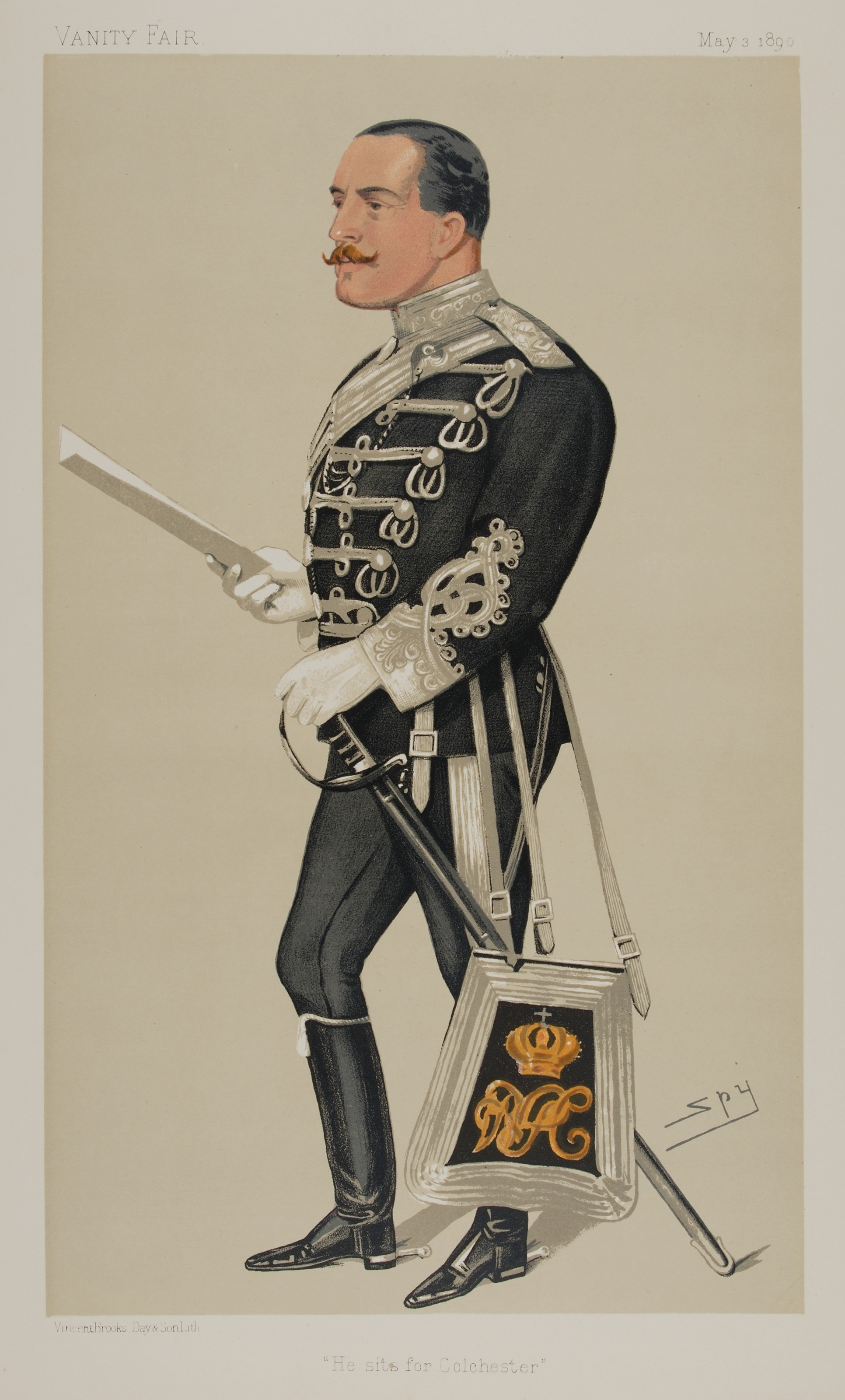 Statesmen No. 571: Caricature of Francis Greville, Lord Brooke. Caption read "He sits for Colchester".